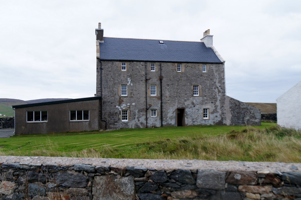 Haa of Sand